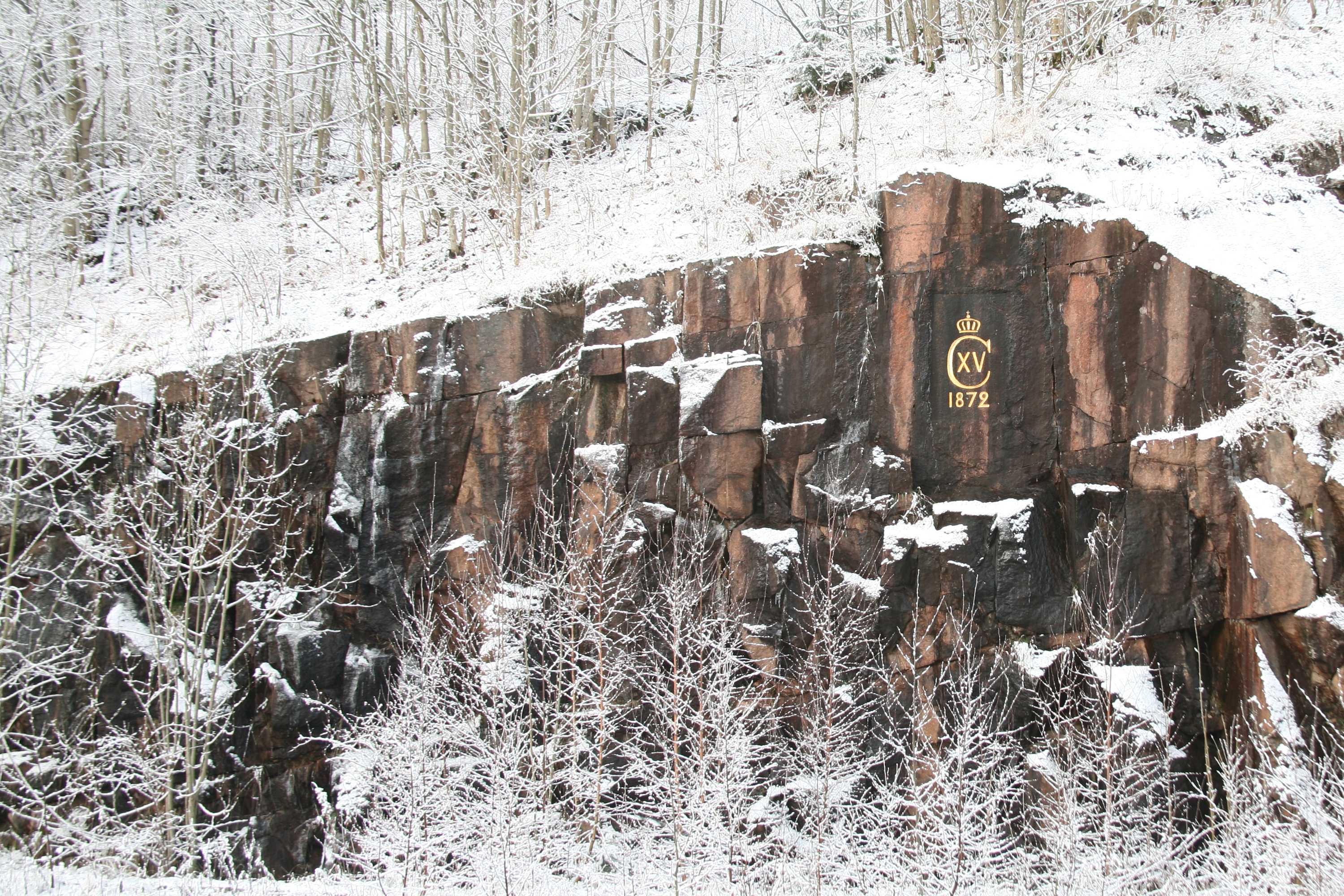 Picture of King Karl IV (Carl XV in Sweden) Symbol at Røyken railway station (Norway)